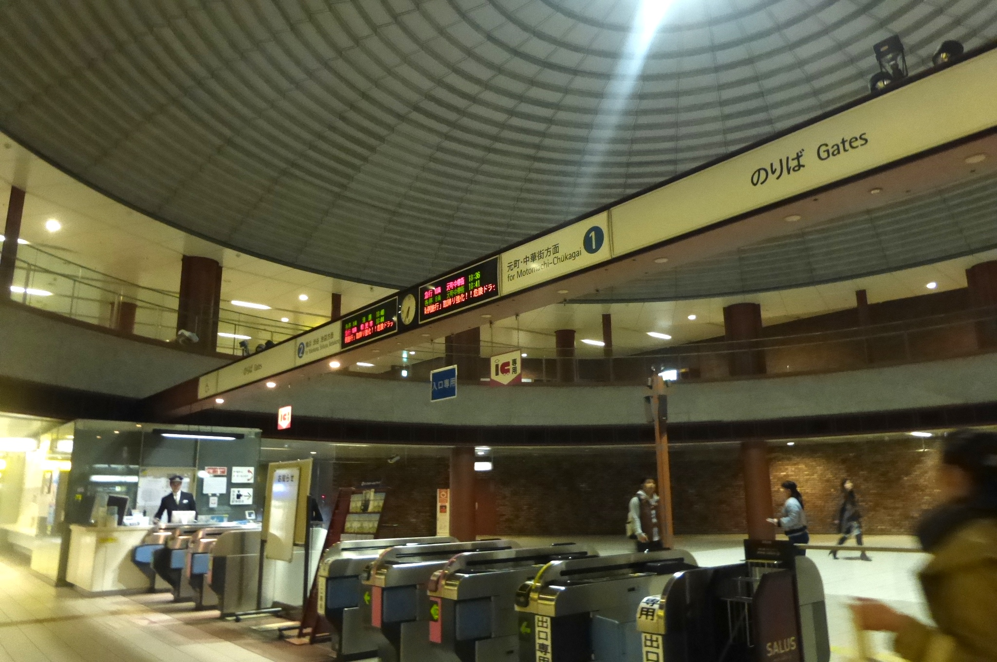 Bashamichi Station ticket gates